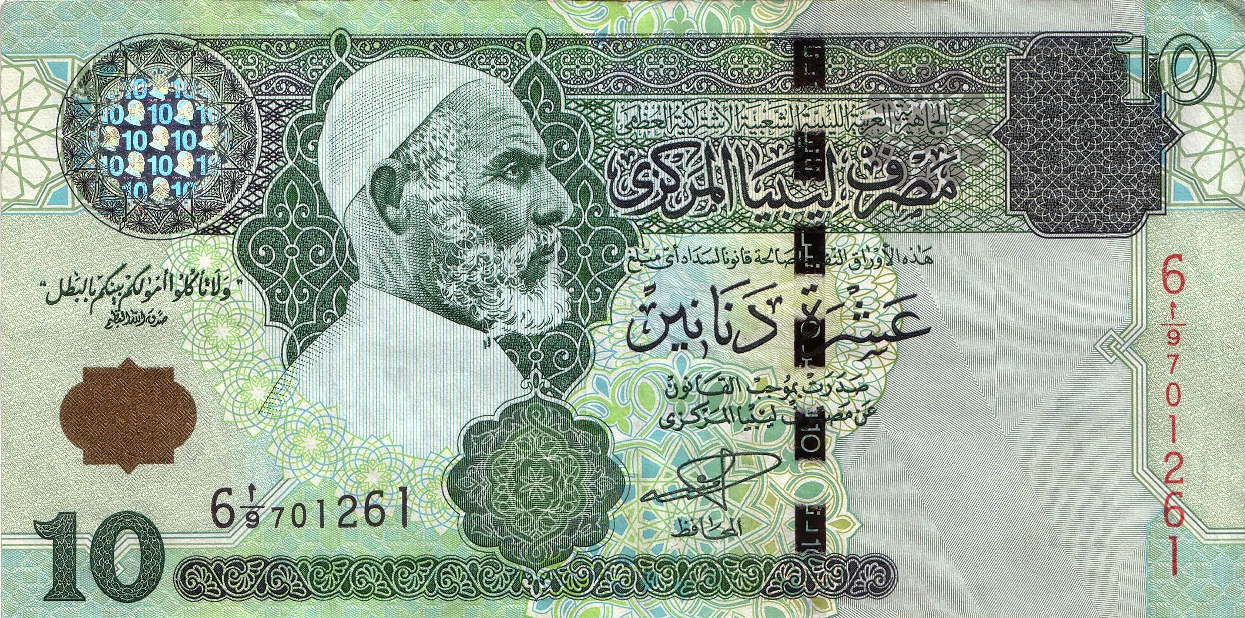 libyan 10-Dinar-banknote with portrait of Omar Mukhtar